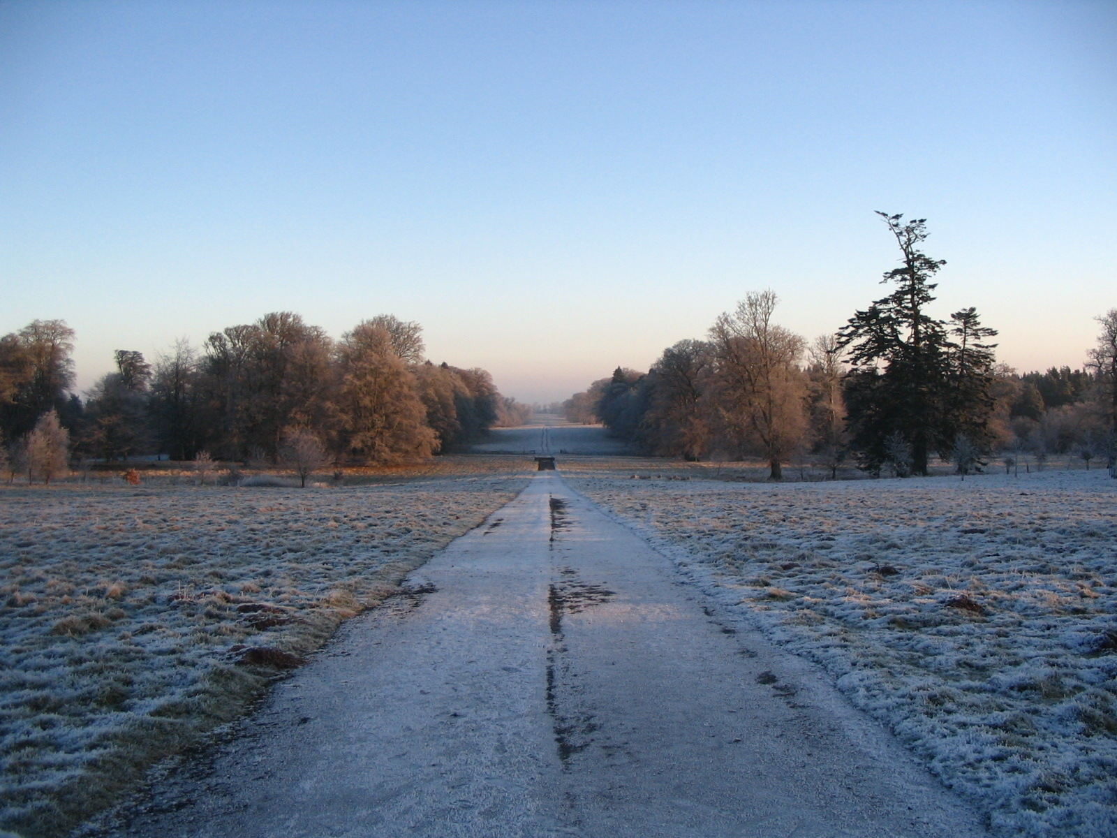 The avenue at Marchmont, looking north east